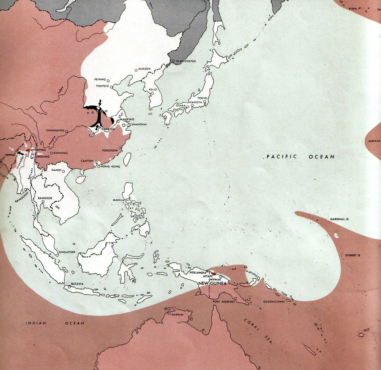 Map of the front against Japan as of 15 May 1944: This map is taken from the source "Atlas of the World Battle Fronts in Semimonthly Phases to August 15th 1945: Supplement to The Biennial report of The Chief of Staff of the United States Army July 1, 1943 to June 30 1945 To the Secretary of War". (See Cover, Forward and Map details)